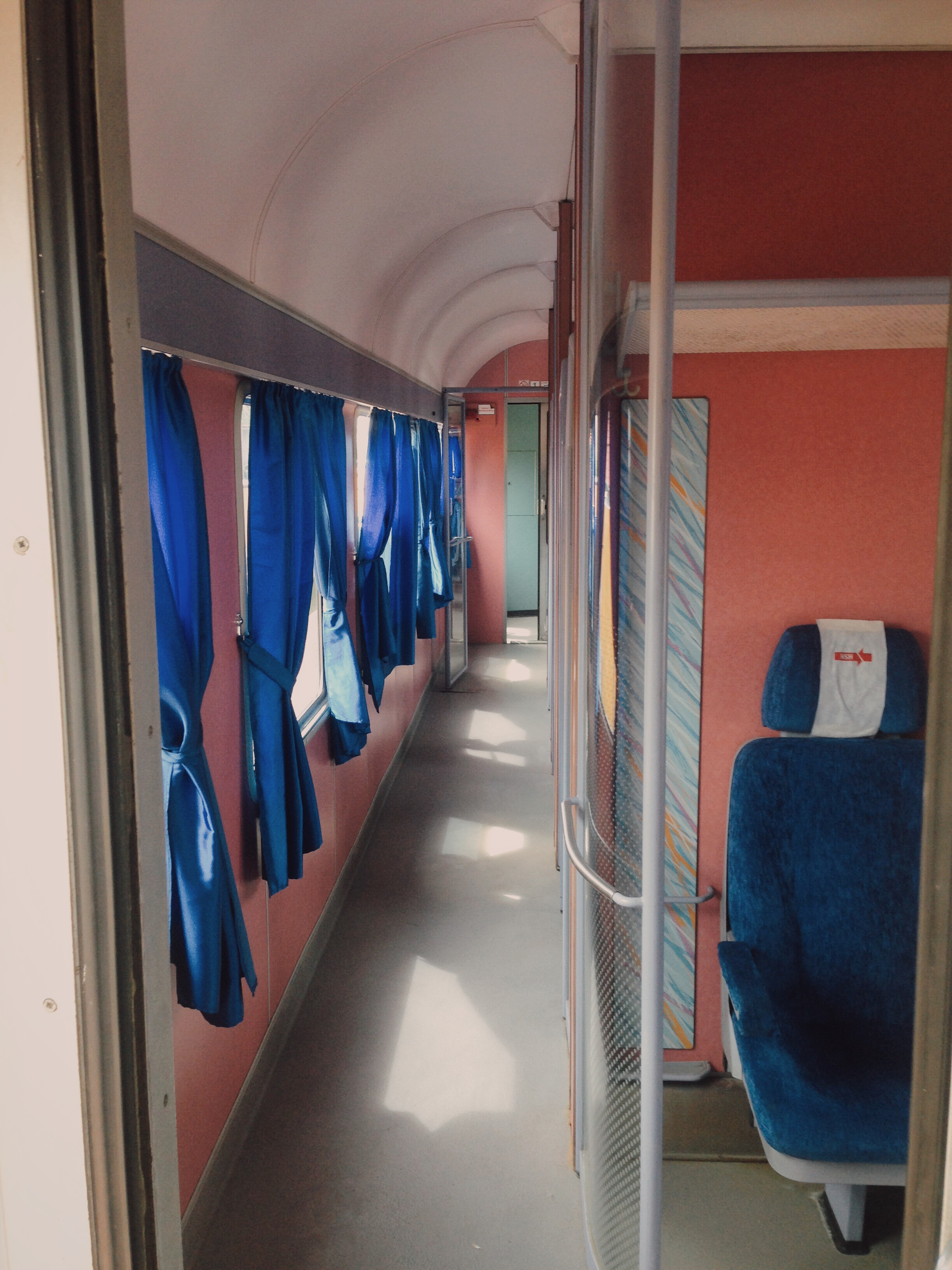 Newly renovated wagon interior of the Albanian Railways